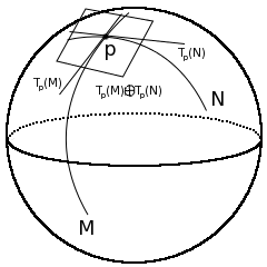 Transvers yes